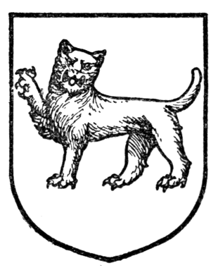 Fig. 336.—Cat-a-mountain passant guardant.